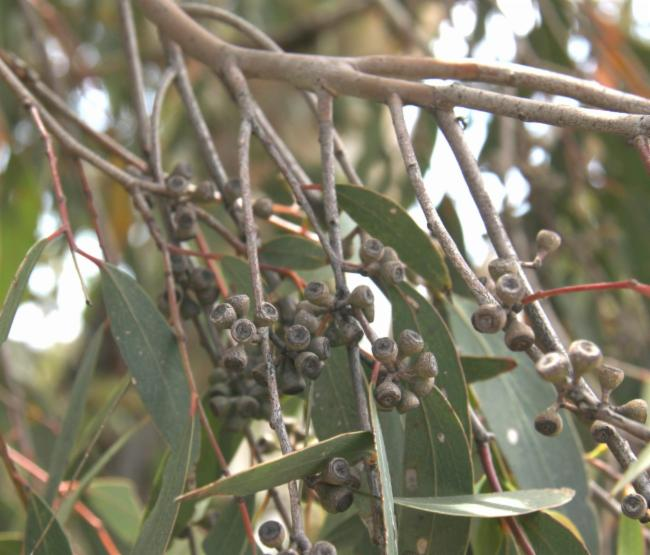 Fruit of Eucalyptus dives near the Kosciuszko Road, Kosciuszko National Park, New South Wales